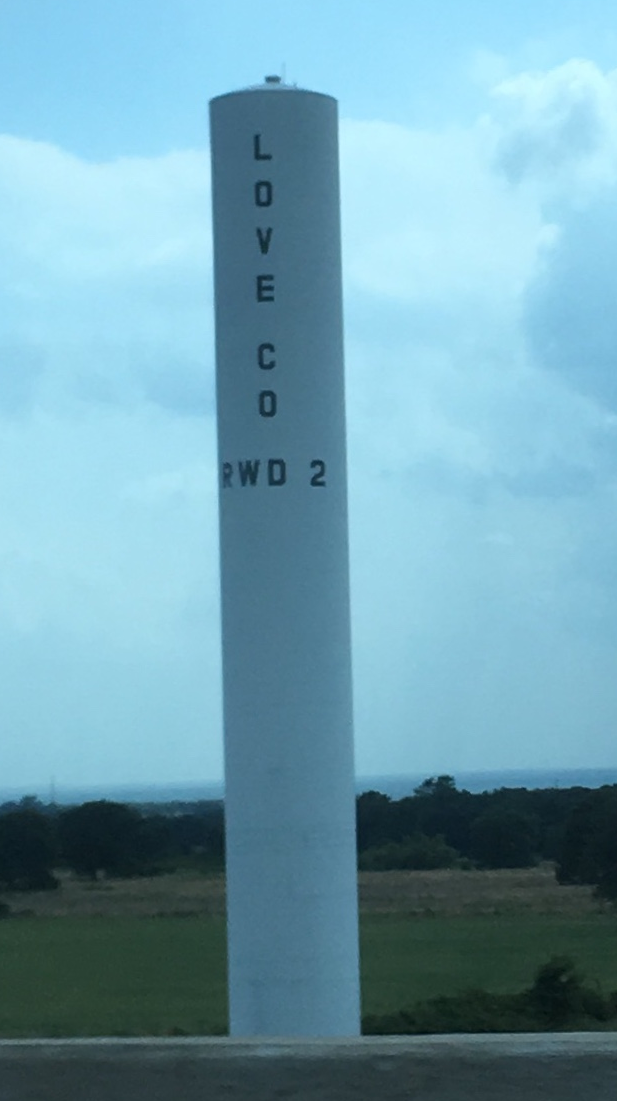 Water tower in Love County, Oklahoma, located along Interstate Highway 35